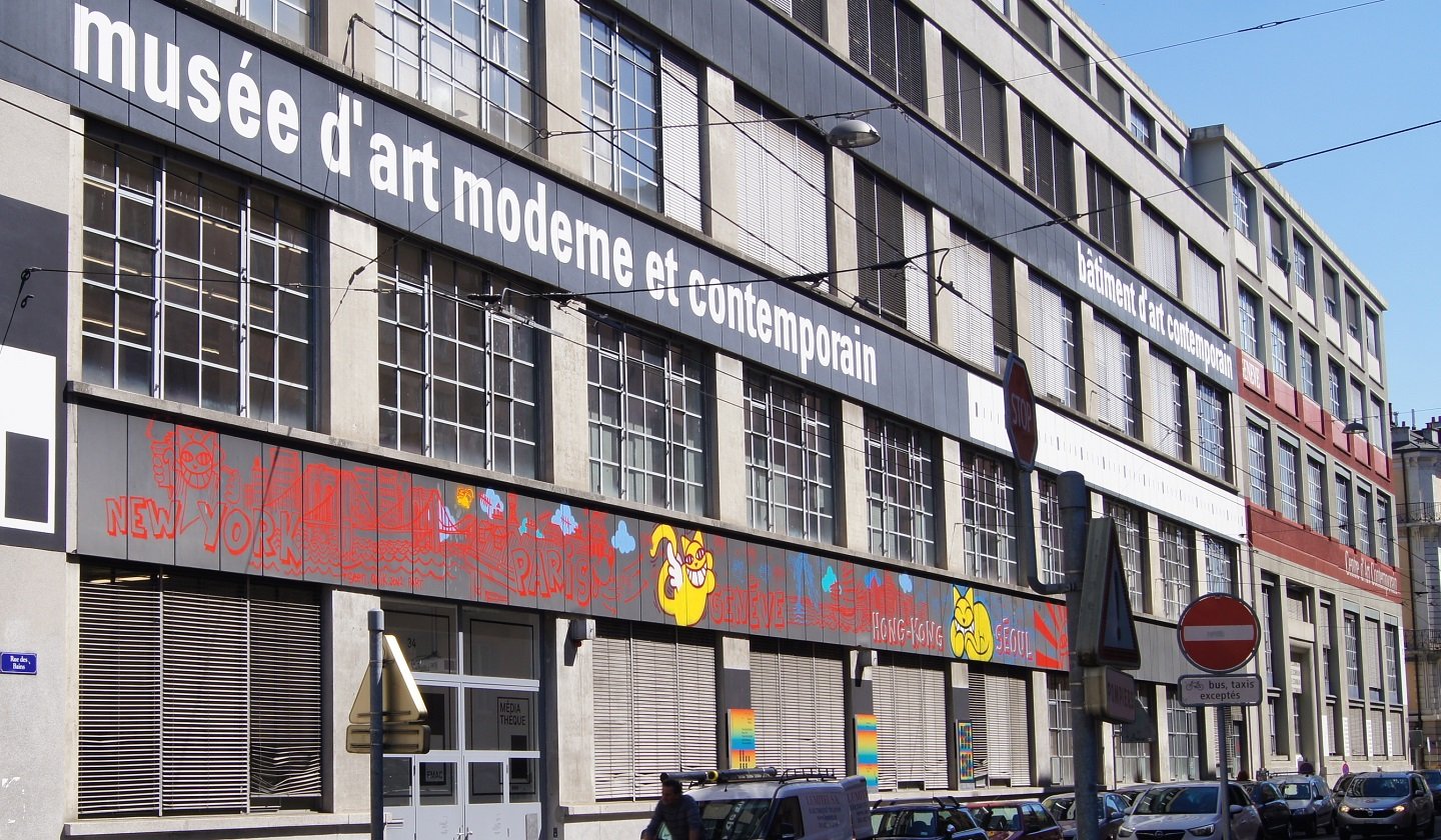 Bâtiment d’art contemporain (BAC), Geneva - (Bâtiment C) with MAMCO & Mediatheque